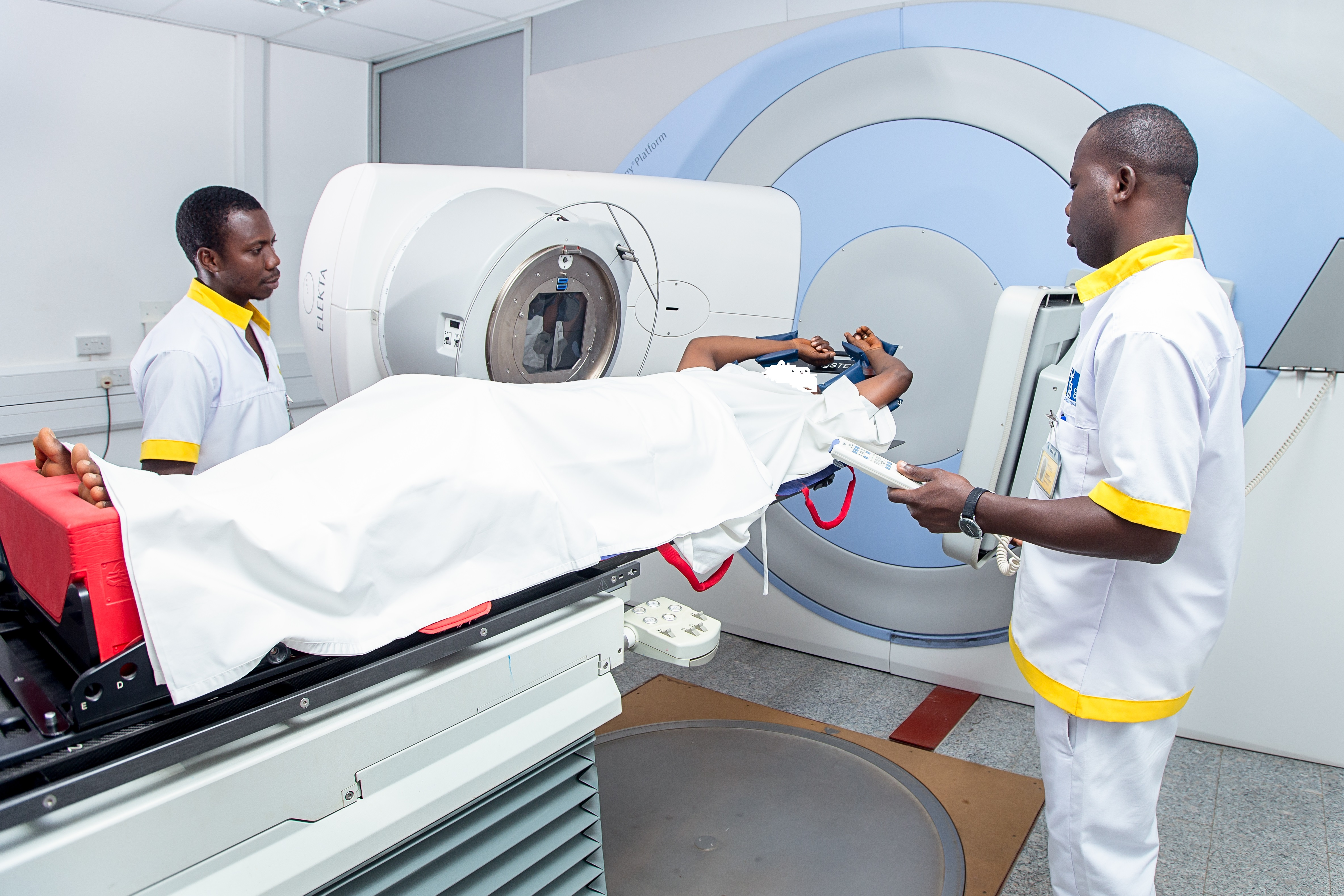 Ghanaian Radiotherapists treating a patient with a linear accelerator at the best private cancer centre in West Africa (The Sweden Ghana Medical Centre in Accra, Ghana). This is an image of "African people at work" from Ghana